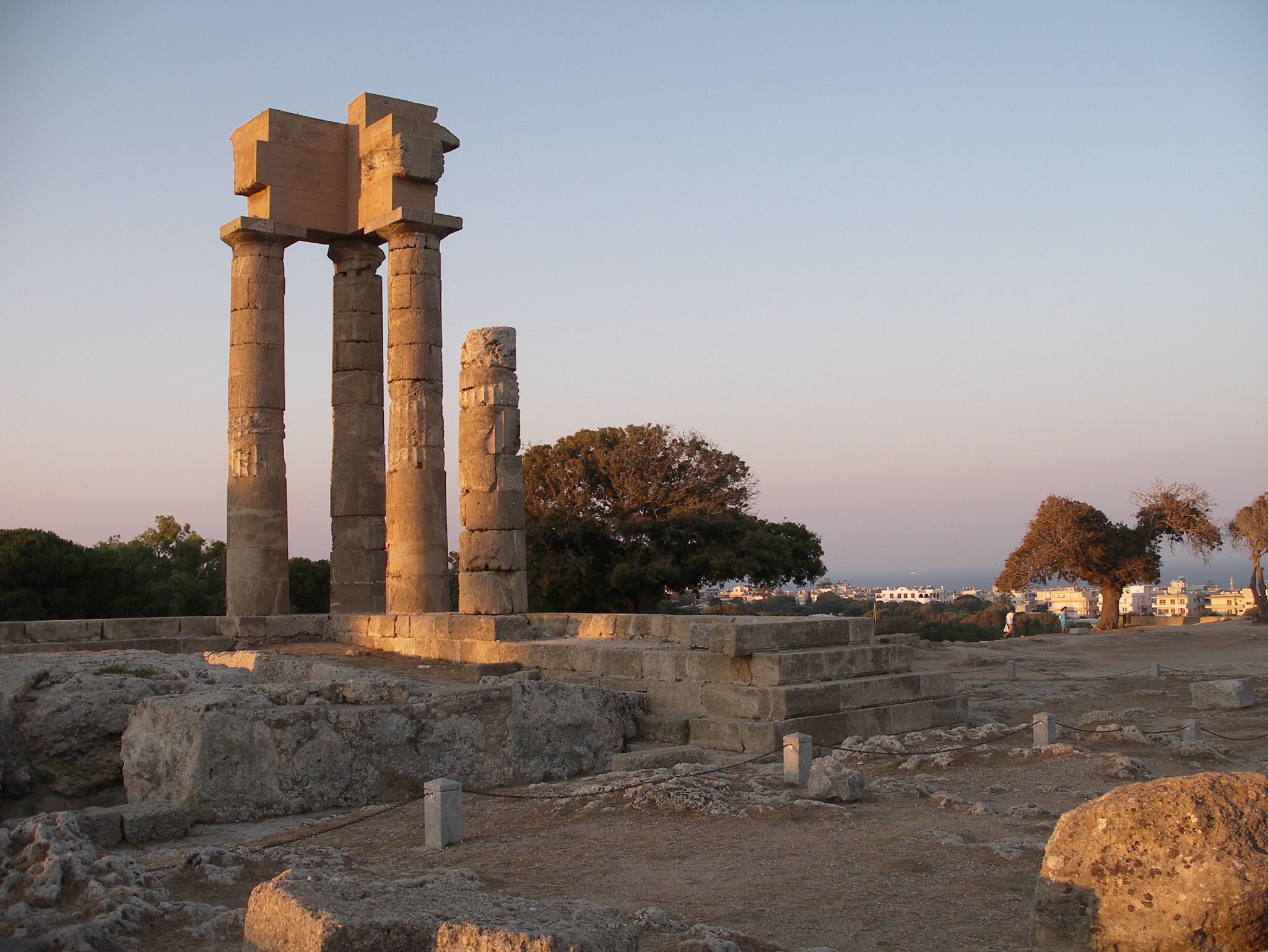 Temple of Apollo Pythios, Acropolis of Rhodes, Greece.